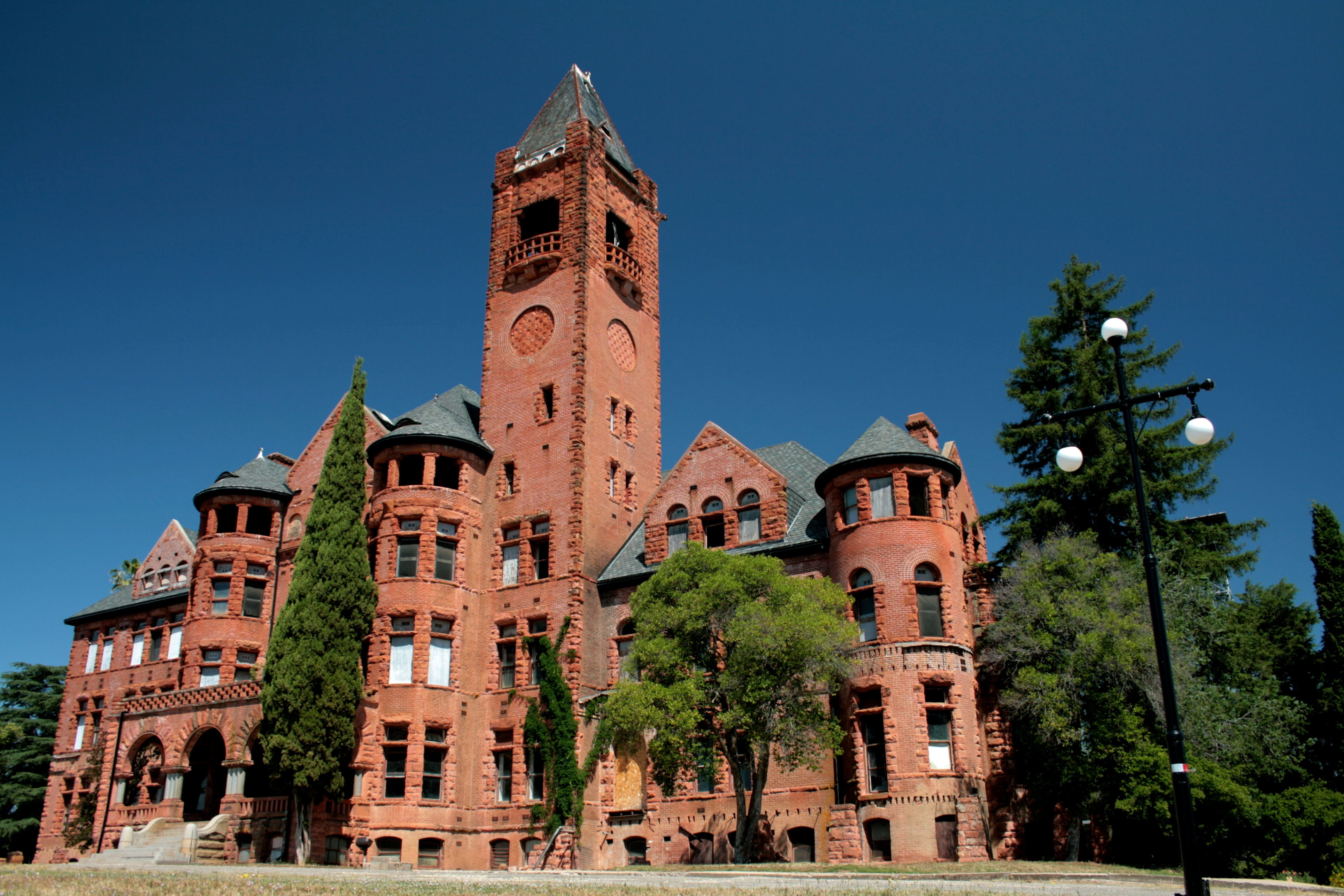 Preston Castle in Ione, California, built in the latter half of the 19th century.